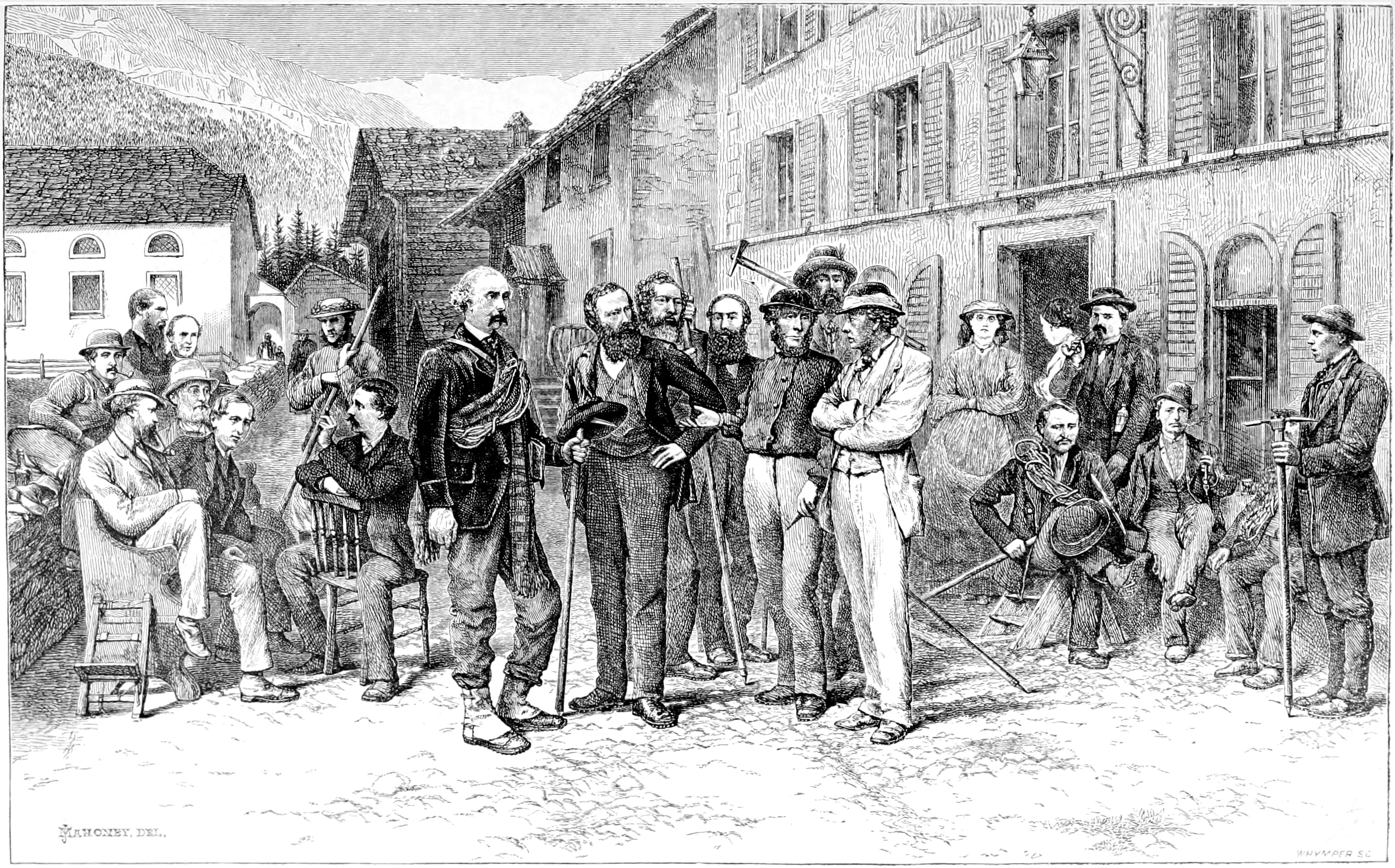 The club-room of Zermatt, in 1864.